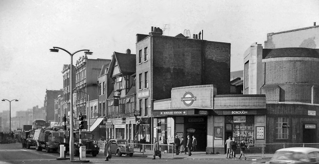 Borough Underground Station entrance. View SW on corner of Borough High St. and Marshalsea St; LT Northern Line (via Bank)